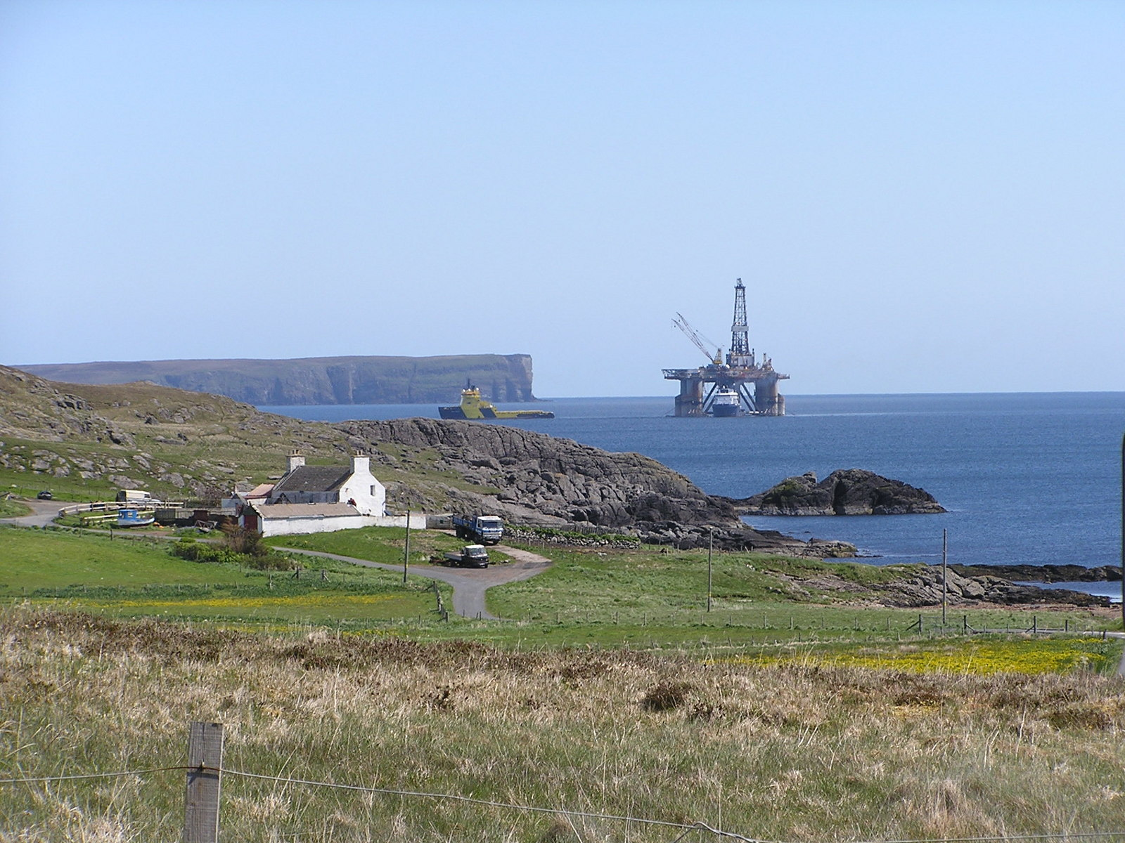 Easter Quarff, near to Easter Quarff, Shetland Islands, Great Britain.